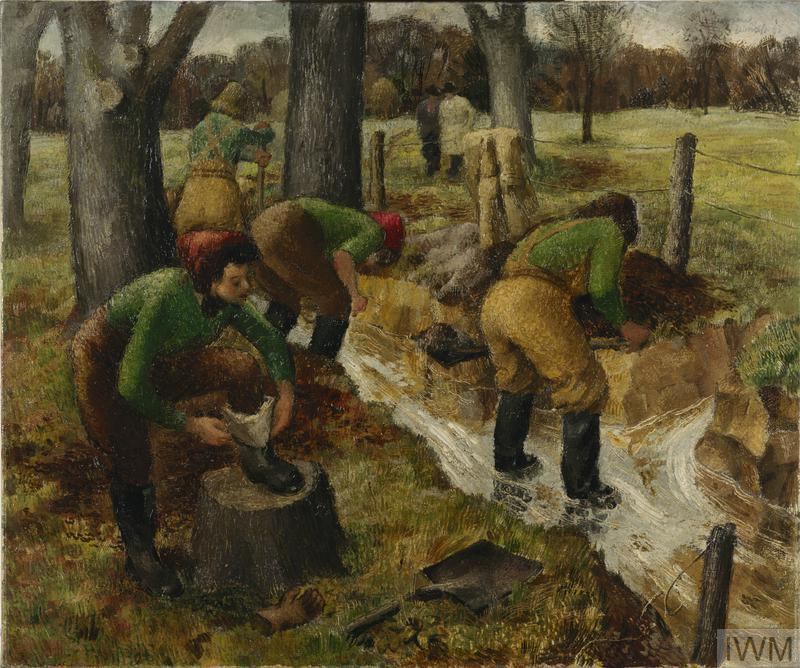 A group of 4 women in the uniform of the Women's Land Army working beside a stream